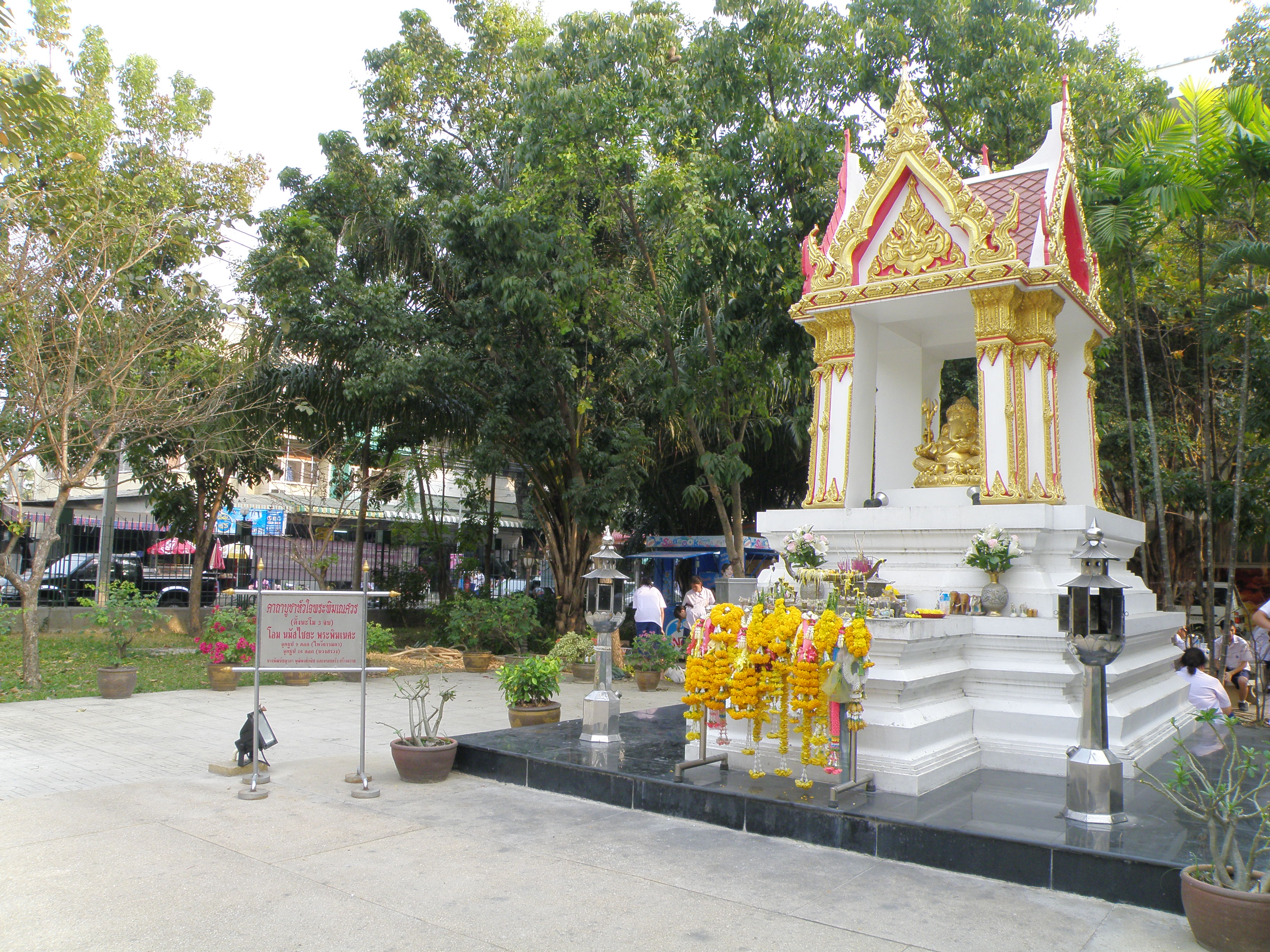 Shrine for Ganesha, guardian deity of the arts at "The Demonstration School of Silpakorn University", Nakhon Pathom